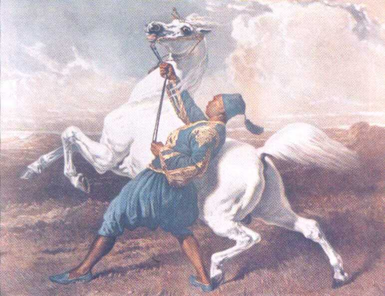 From Sheykh Obeyd Foundation International, Inc.